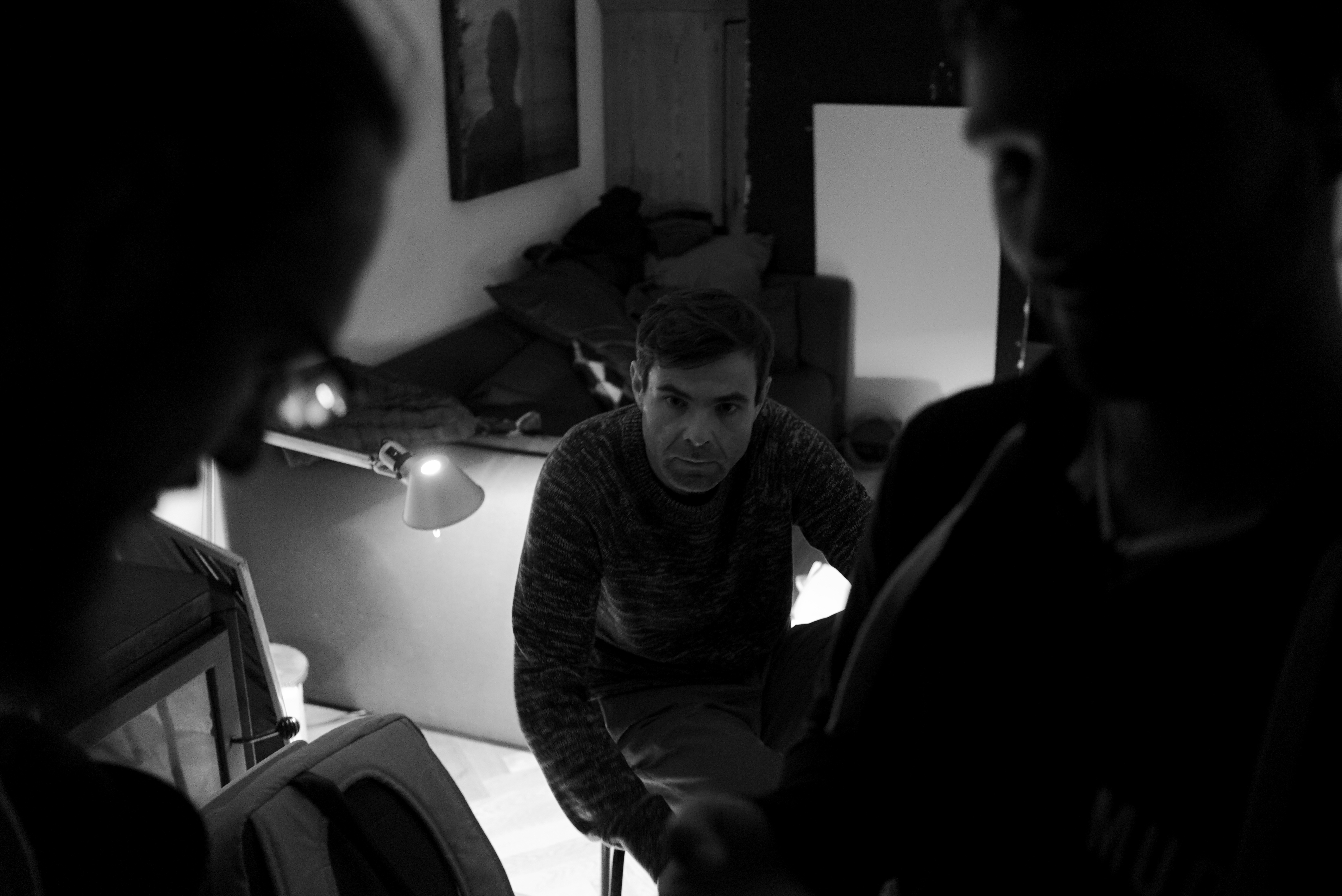 Main Actor Andreas Döhler during the shooting of "Hands of a Mother" ("Die Hände meiner Mutter")